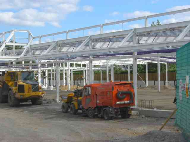 New Supermarket at Gerrards Cross. This is to be a Tesco supermarket which spans the railway cutting and is across the road from the station.